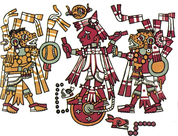 Gladiatorial sacrifice (Tlahuahuanaliztli)